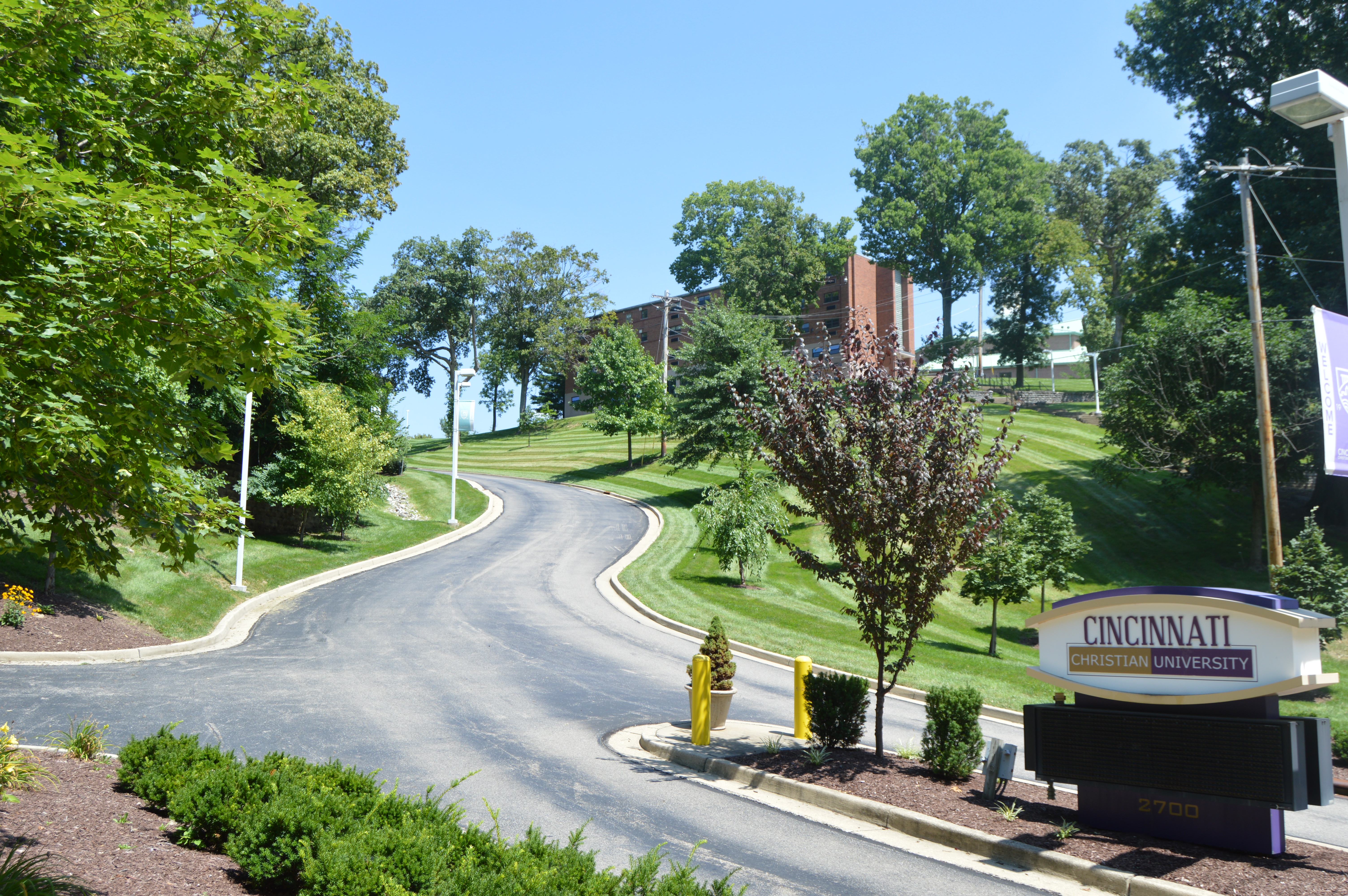 Looking east from Glenway Avenue (State Route 264) toward the Cincinnati Christian University campus in Cincinnati, Ohio, United States.